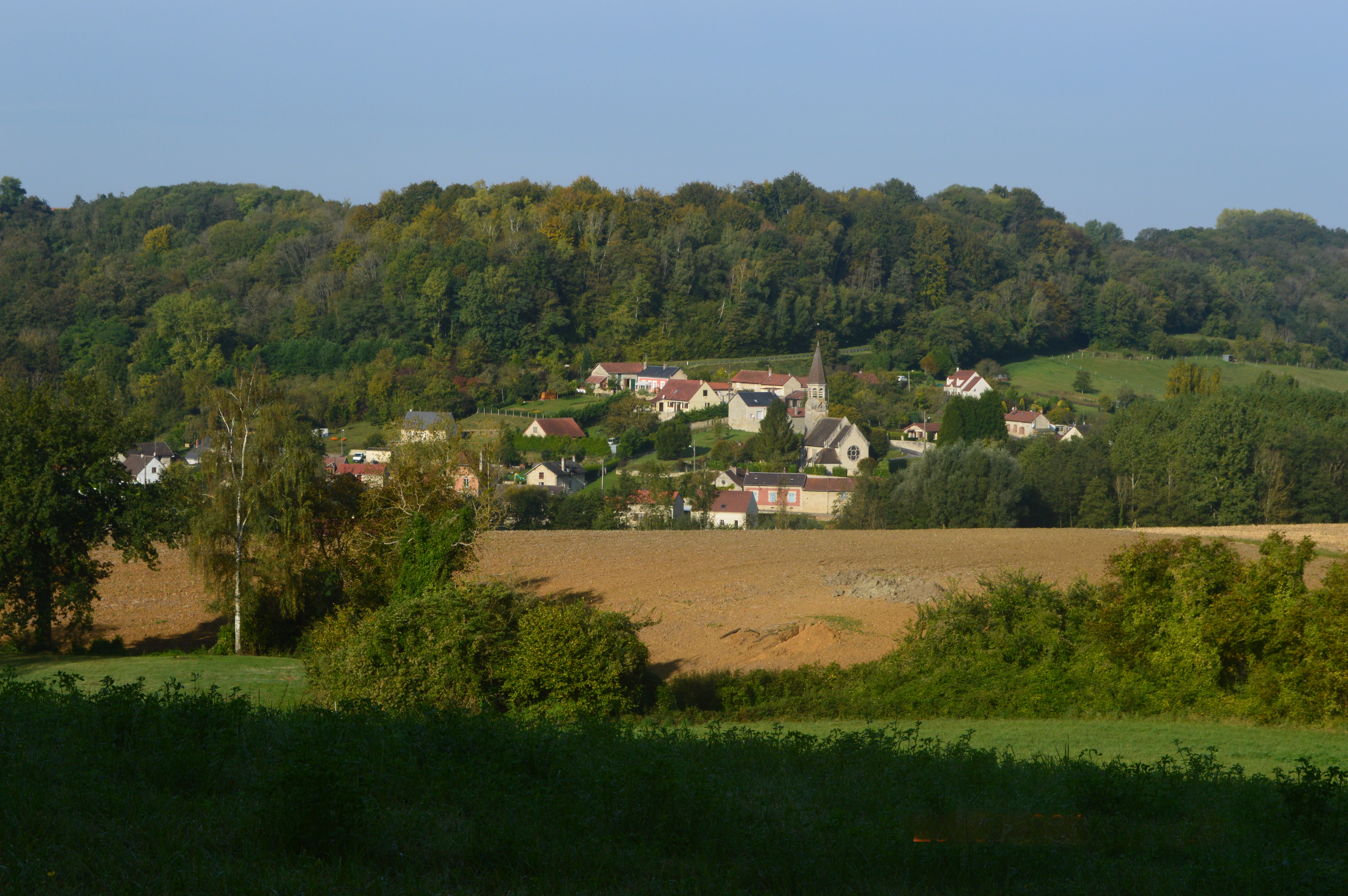 View over Aizy-Jouy